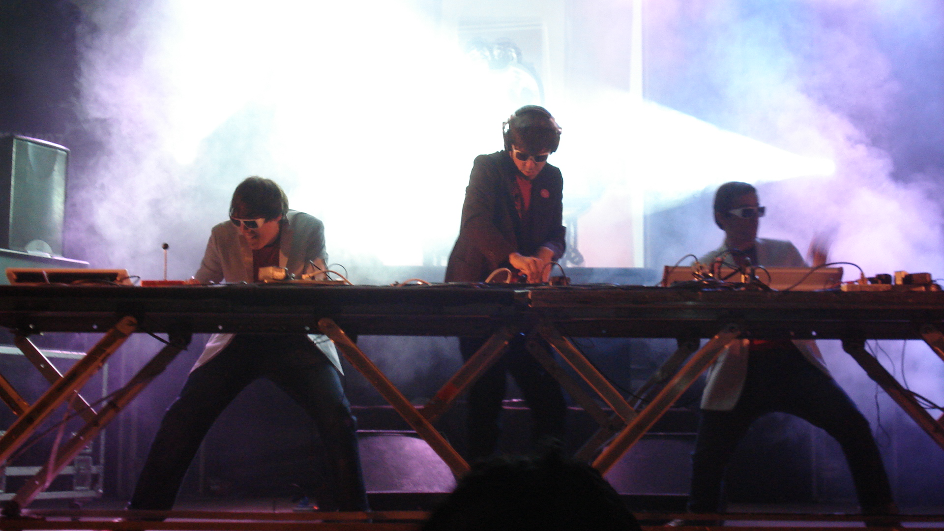 The Pinker Tones performing at Mercat de Música Viva de VicTHE PINKERTONES AL MMVV '07